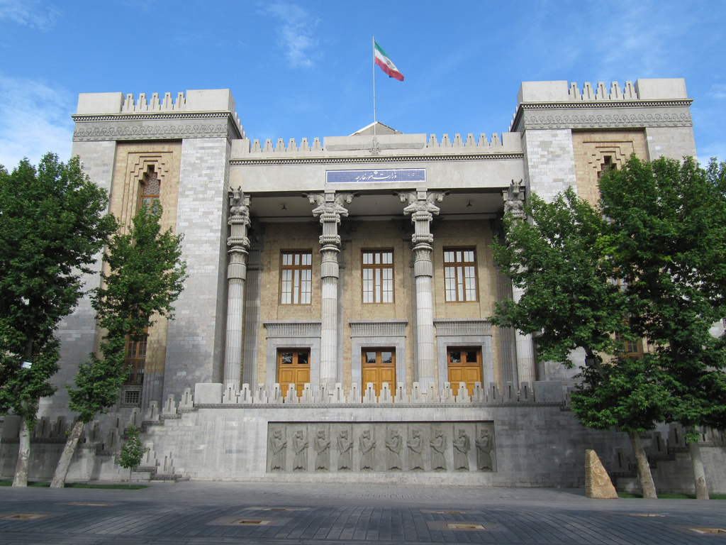 The architecture has been inpired by Perepolice Tehran, Iran